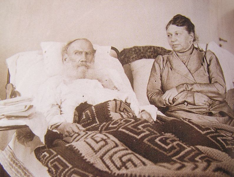 Leo Tolstoy and Sofia Tolstaya in Gaspra, Crimea